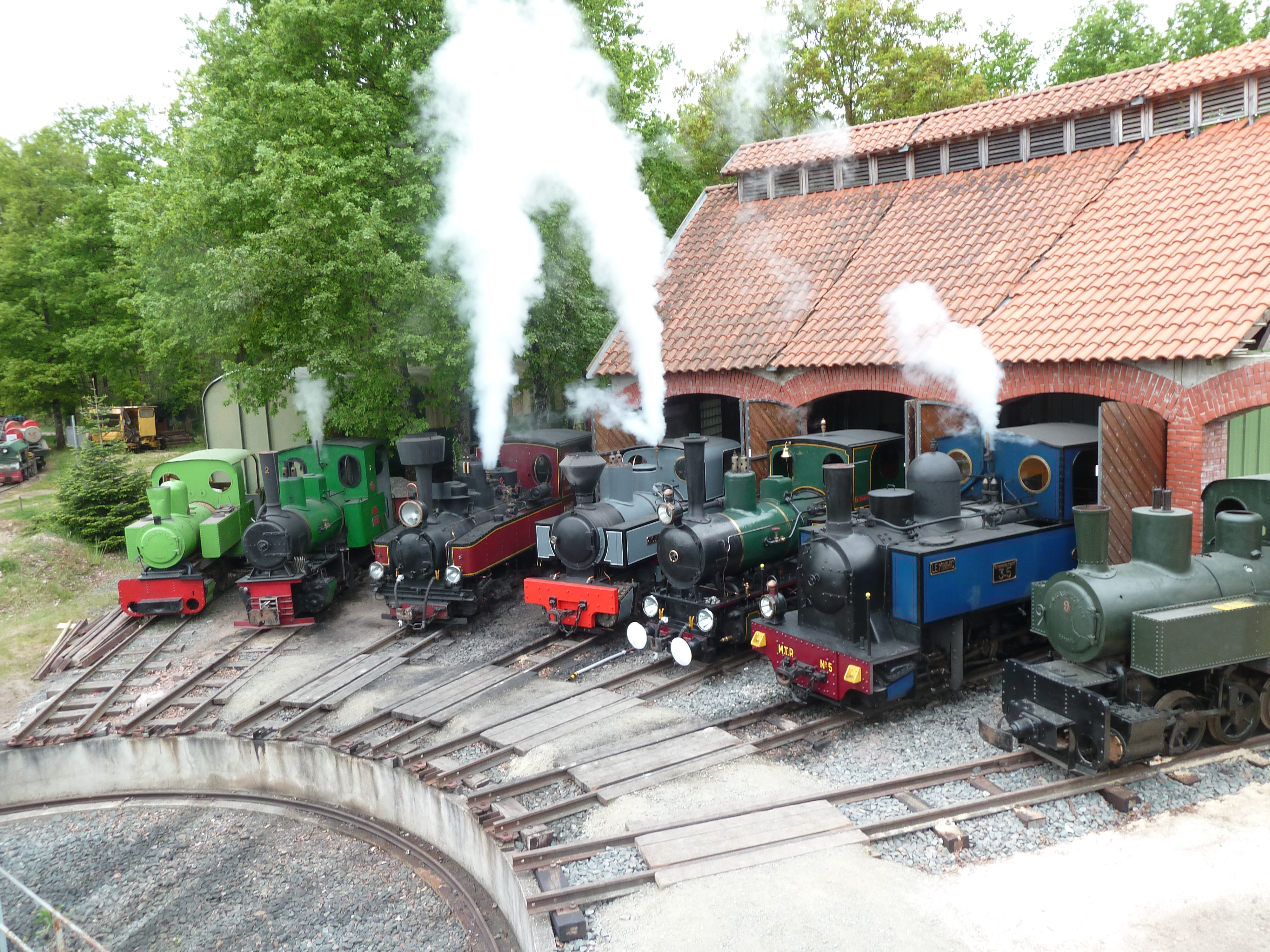 The steam locos of AECFM and associations invited, arranged before the rotunda, during the "Belle Epoque Festival" held in Rillé from 10 to 12 May 2013.